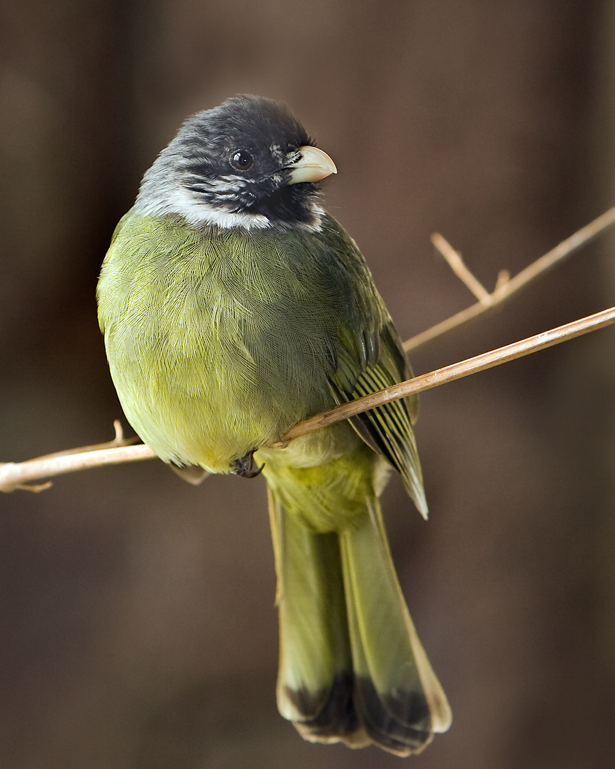 Collared Finchbil Bulbul (Spizixos semitorques). Taken at the Bird Kingdom Aviary, Niagara Falls, Canada.